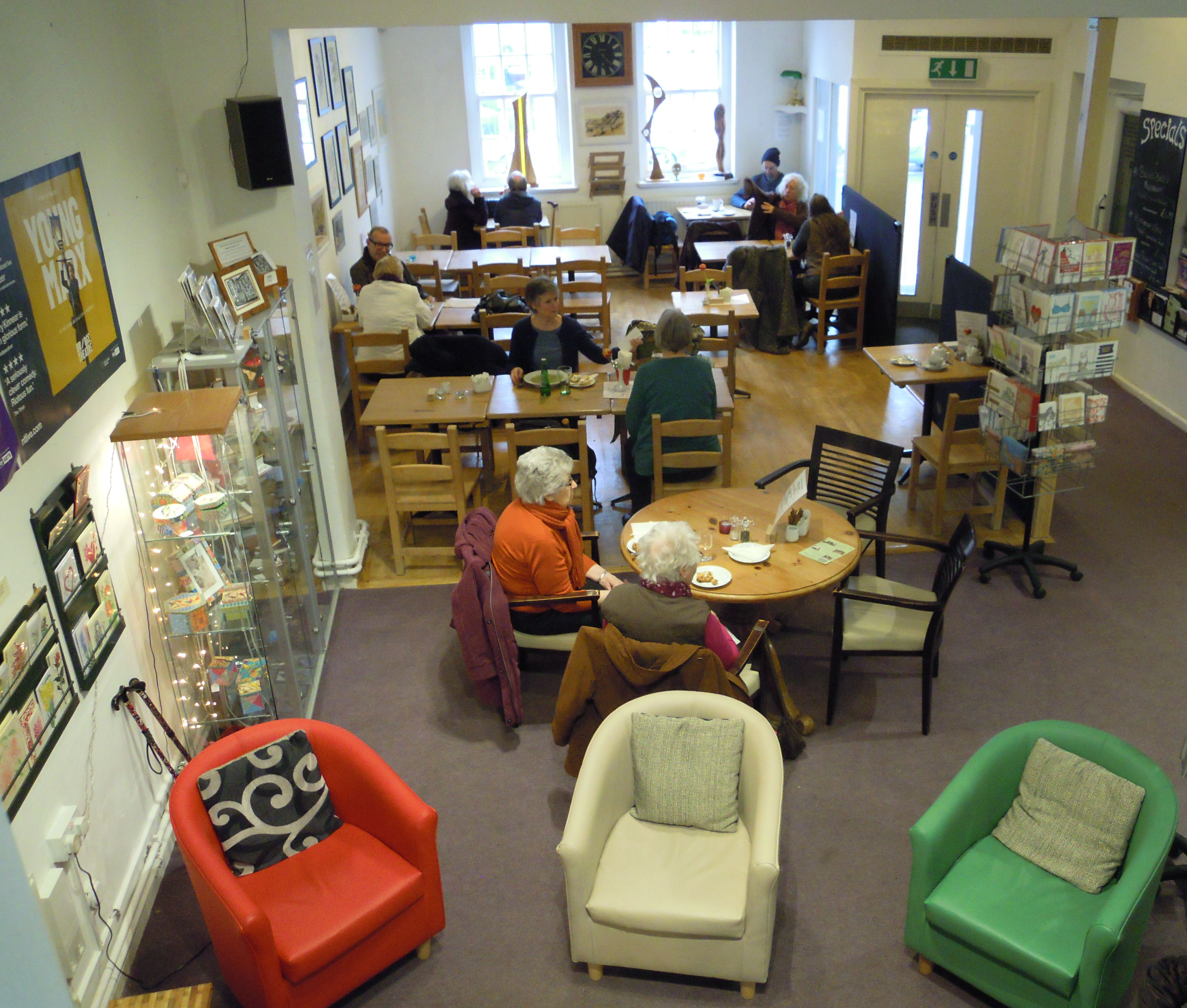 The Theatre Café at The Plough Arts Centre in Great Torrington in Devon